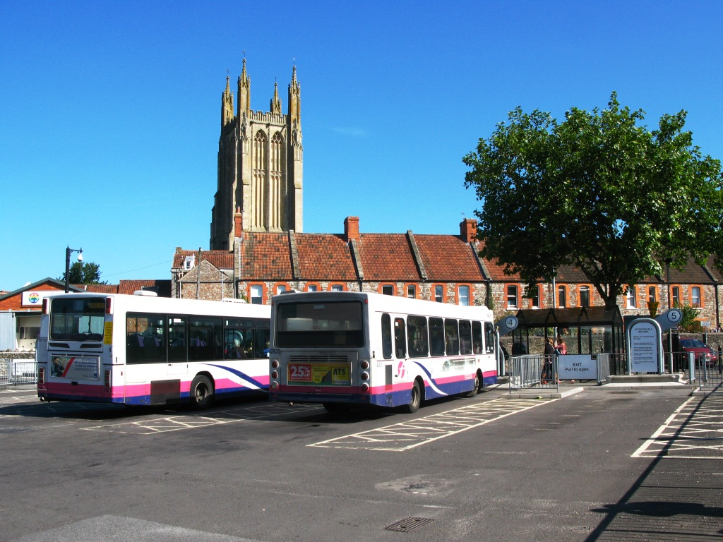 The bus station in Wells, Somerset, England.The two buses are oprated by First Somerset and Avon. On the left is Volvo B10BLE/Wright Renown 66160 (S360 XCR); on the right is Dennis Dart SLF/East Lancashire 42825 (S825 WYD).In the background over the rooftops is the tower of St Cuthbert's parish church.